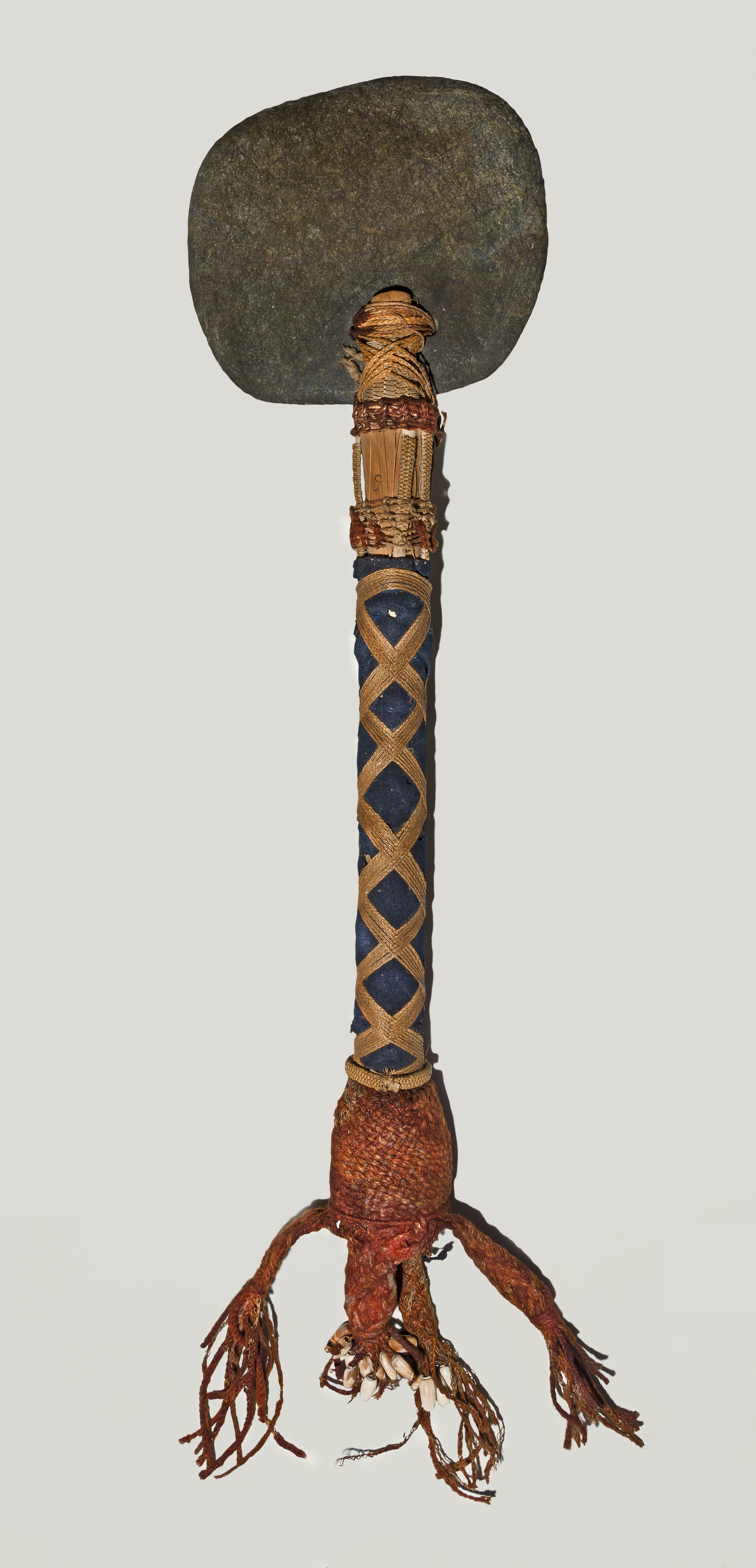 O'kono - Ceremonial ax History: Axe decision in the hands of the chief Kanaka ATAÏ, tribe revolted La Foa, who was killed during the uprising in 1878. Description : Ceremonial ax, circular, polished jadeite. Two holes allow attachment of the handle. This one is dressed in a blue hardwood native cloth. Braided cords decorate the determining diamonds. These links are flying fox hair. At the end of the handle which is swollen and hollow, a dark brown wool braided cord wrapping constitutes a decorative ending with four strips the ends of which are hooked shells. Population : Kanak people, New Caledonia Date of collection: 1878 La Foa Nouvelle-Calédonie Materials: Jadeite, wood, cloth, flying fox hair (Pteropus vetulus), shell Size : 61 x19 cm cm